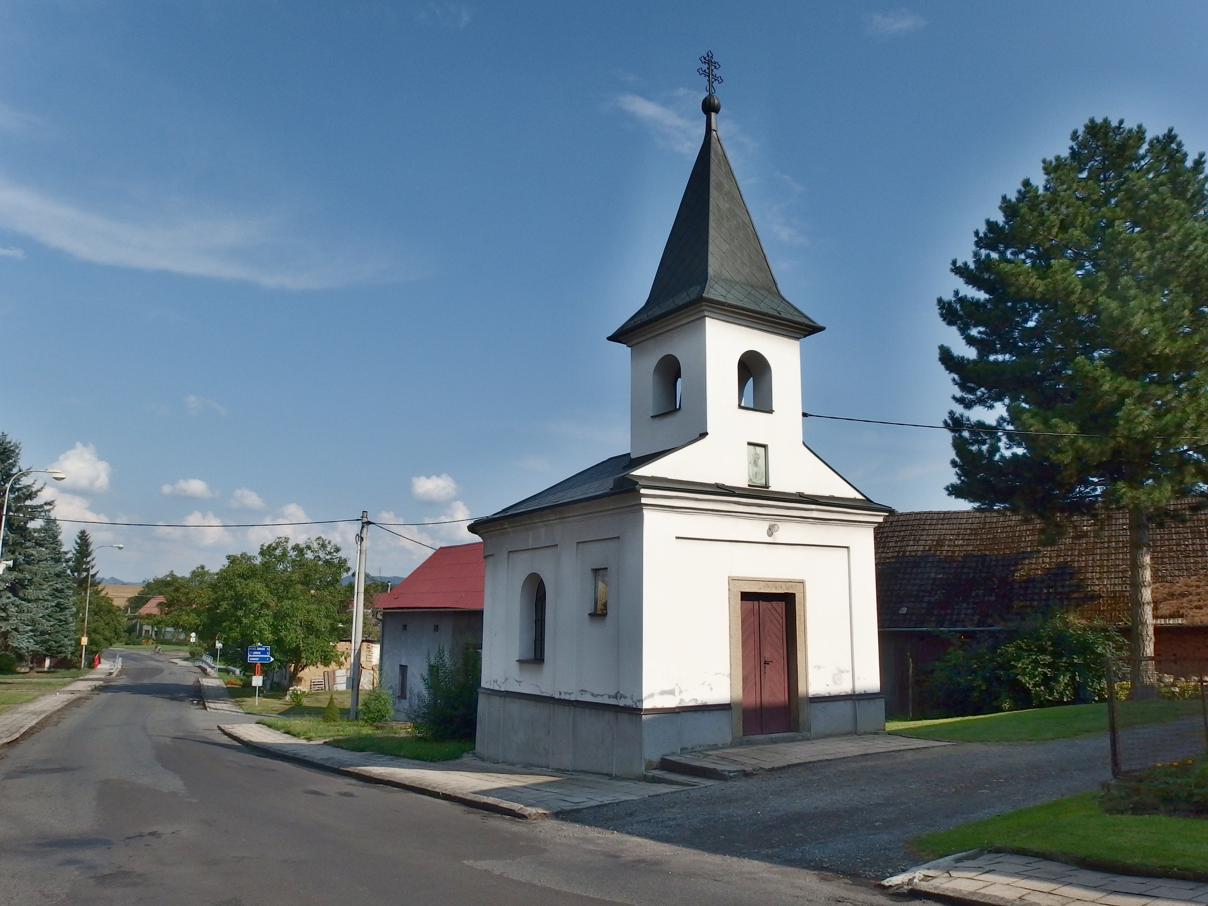 Loukov, Kroměříž District, Czech Republic, part Libosváry.